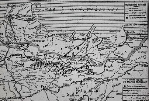 Map from 1925-1926 showing the string of military posts (black dots) build by the French army to serve as a cordon sanitaire between French Morocco and Abd-el-Krim's Riffian Republic to the north. The shaded line represent the international border between French and Spanish Morocco.